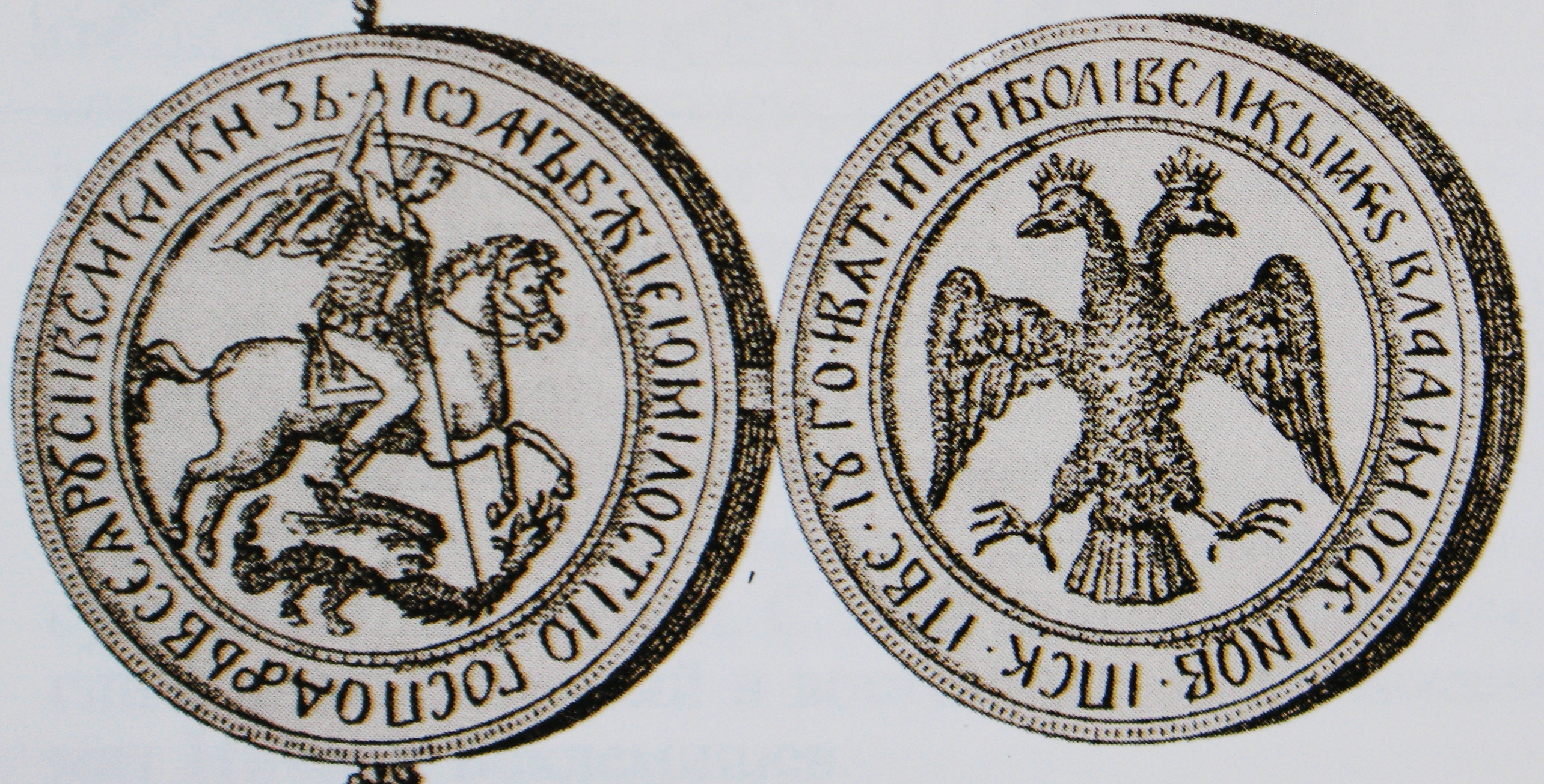 The seal of Ivan III of Russia. Saint George and the Dragon.